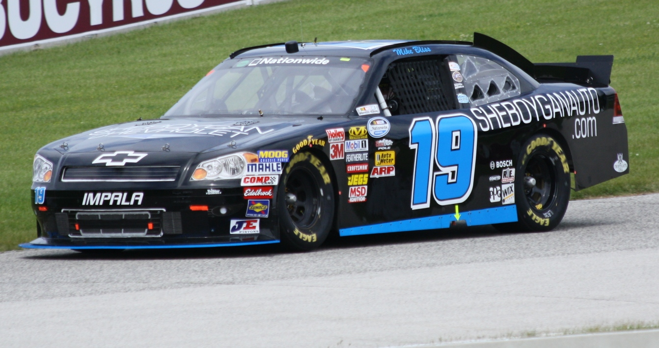 NASCAR driver Mike Bliss racing his stock car at Road America at the 2011 Bucyros 200 Nationwide Series race.